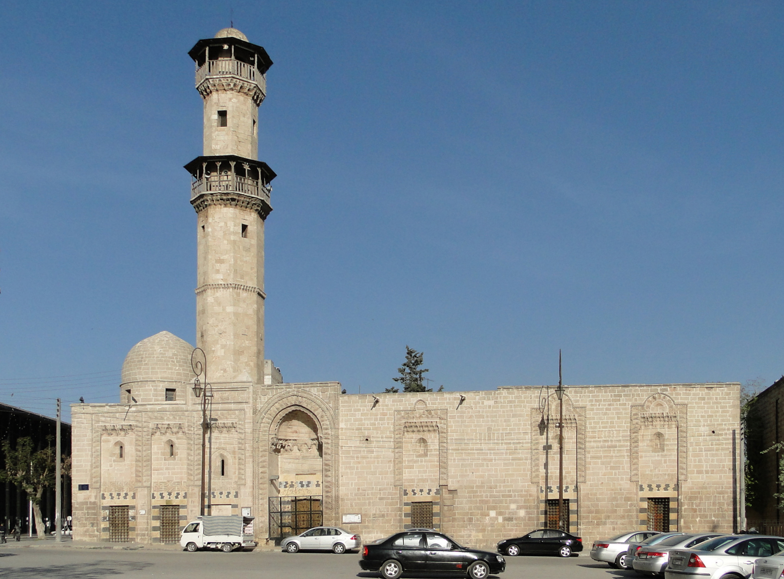 Al-Atroush Mosque in Aleppo, Syria